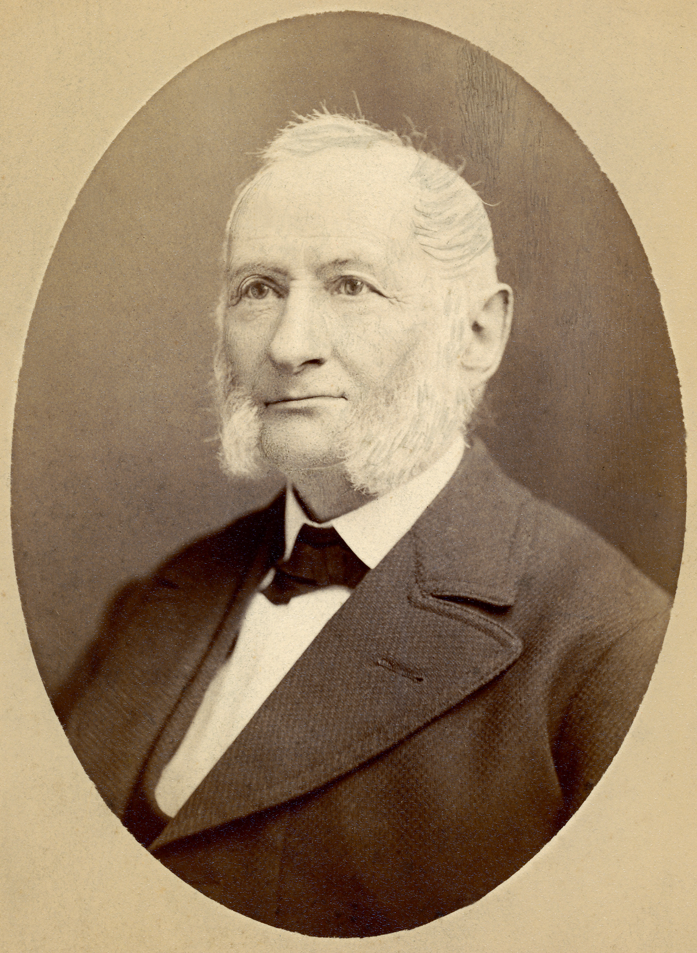 Dr. med. Martin Bider (18.1.1812 - 19.6.1878), from Langenbruck, Canton of Basel-Landschaft, Switzerland Main initiator of the Waldenburgerbahn. Picture from 1872